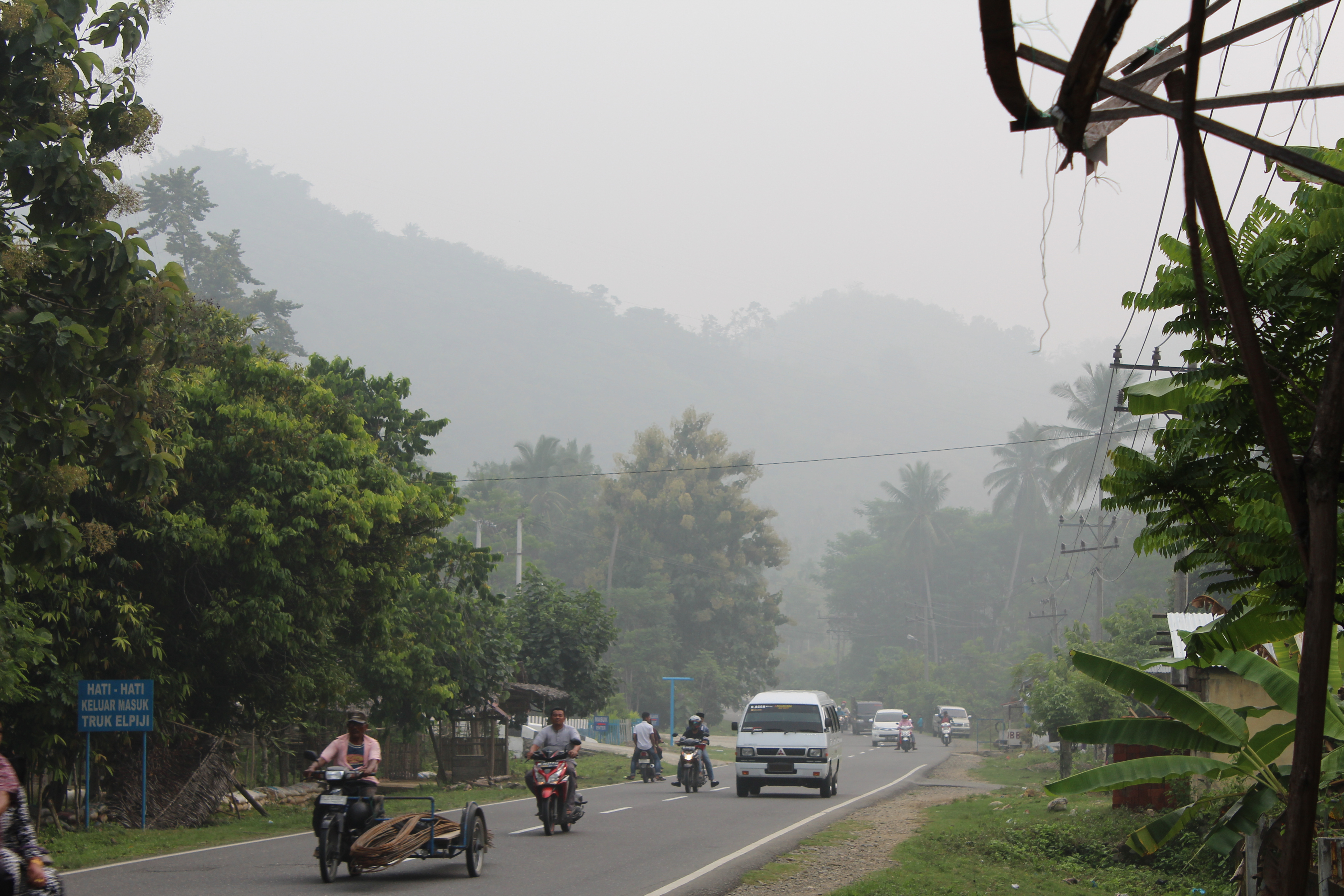 Limited visibility due to smog in Aceh, picture taken on the track road Medan - Banda Aceh, Pidie Jaya District.